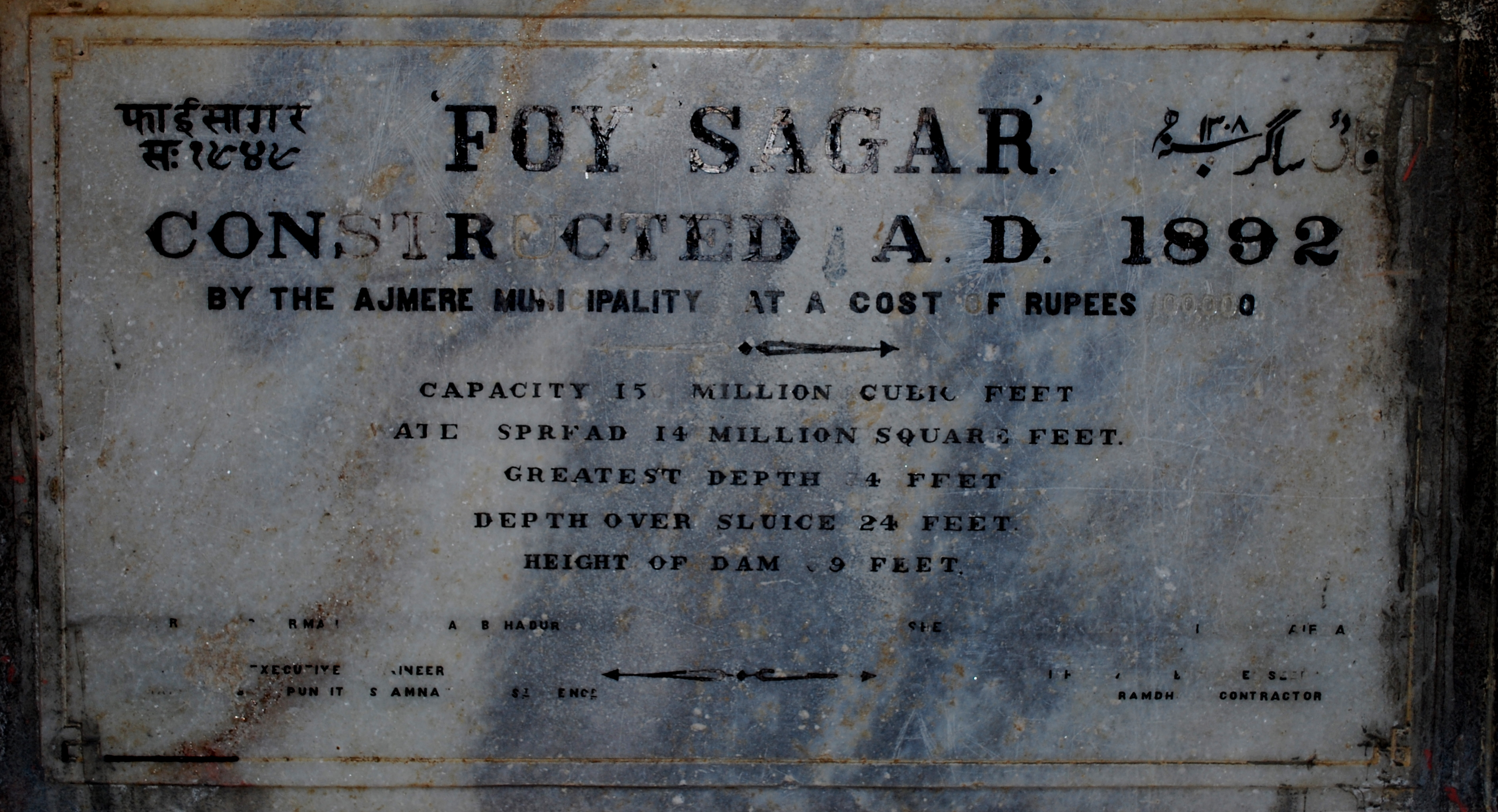 It is the image of the Inscription installed at Foysagar Lake.